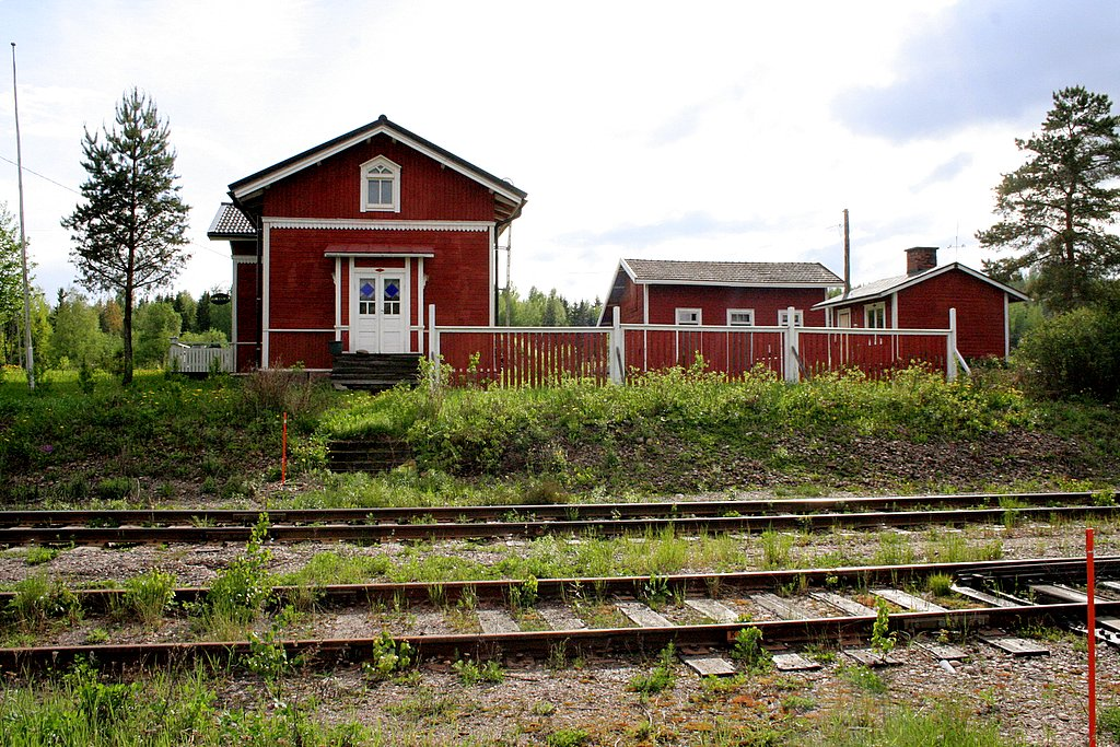 Loviisa railways platform and railway guard's house In the beginning of the 20th saw mills needed means of transportation to the export harbours and cities. One solution was a narrow gaugage private railway, which was founded as a private joint venture between the cities of Lahti and Loviisa. The Loviisa railway had many small railway stations, which became later as platformas only. Near the main village of the municipality of Myrskyla on Lapinjarvi's side of the border is the railway station of Myrskyla. The house and the other buidlings are considered as a cultural heritage. Thay are in the private ownership and partly subsidised by the EU funds.